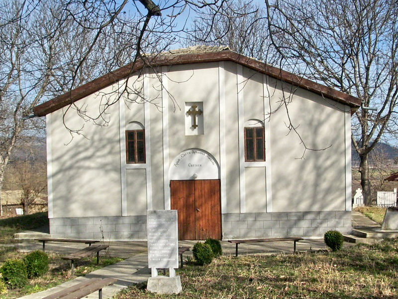 The old church of village Svetlen, Popovo Municipality, Targovishte District, Bulgaria